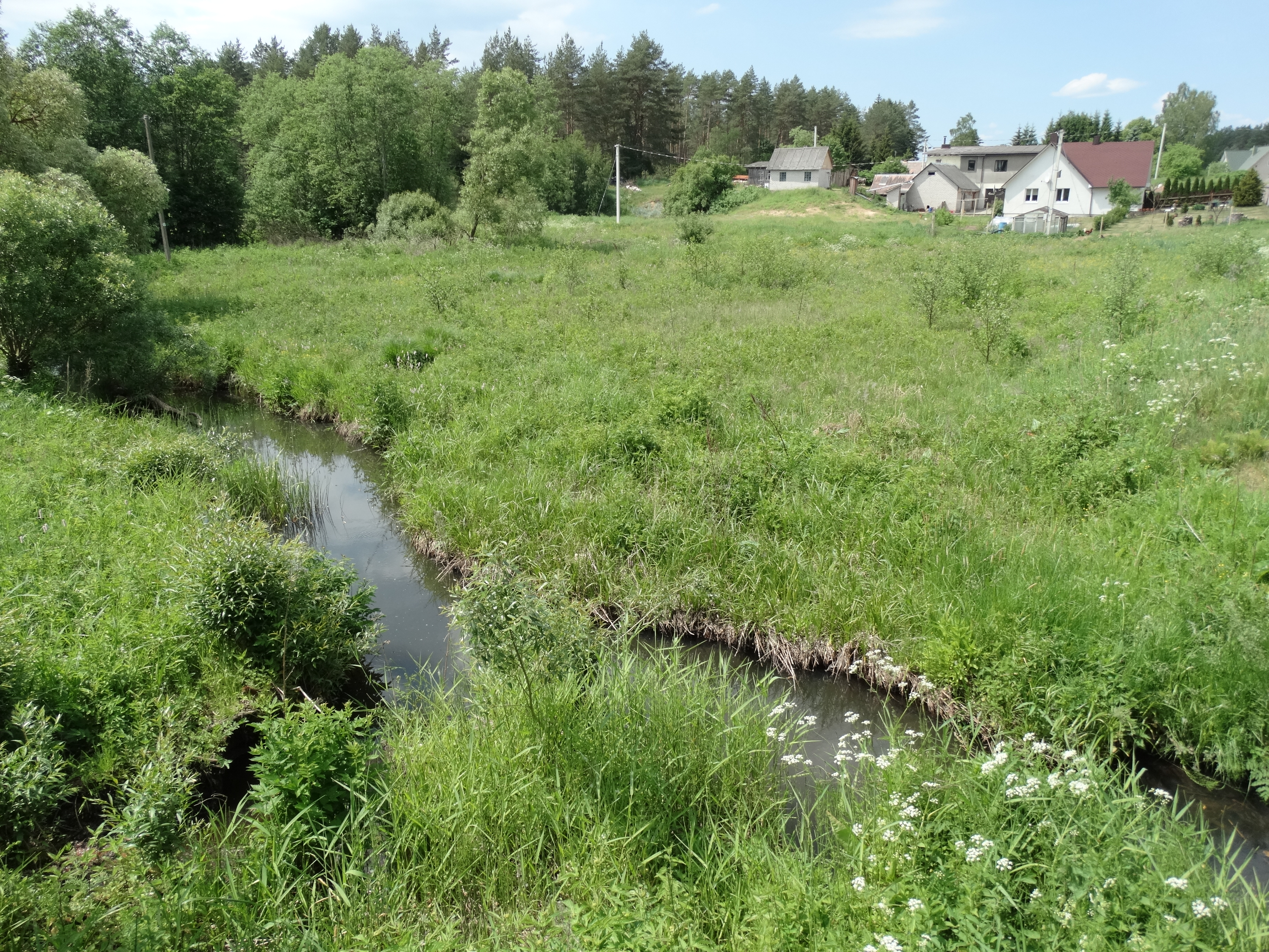 Kena river in Kryžkelis, Vilnius District, Lithuania